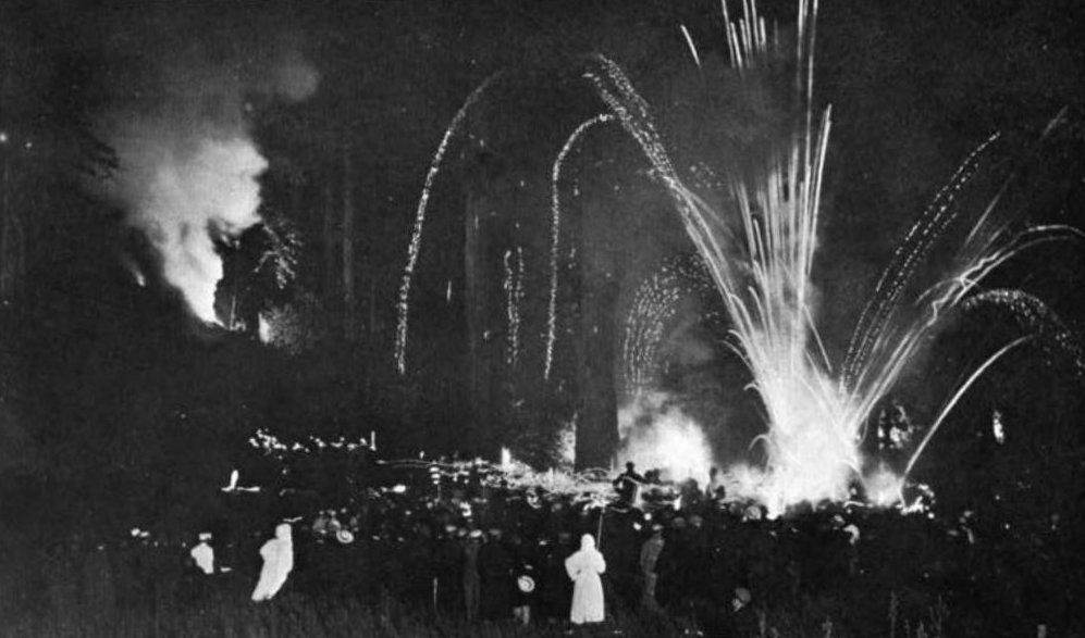 This a screenshot of a photograph by Gabriel Moulin made of the Cremation of Care ceremony at the Bohemian Grove in 1907. The photo appears in a book which was published in 1908 and is out of copyright.